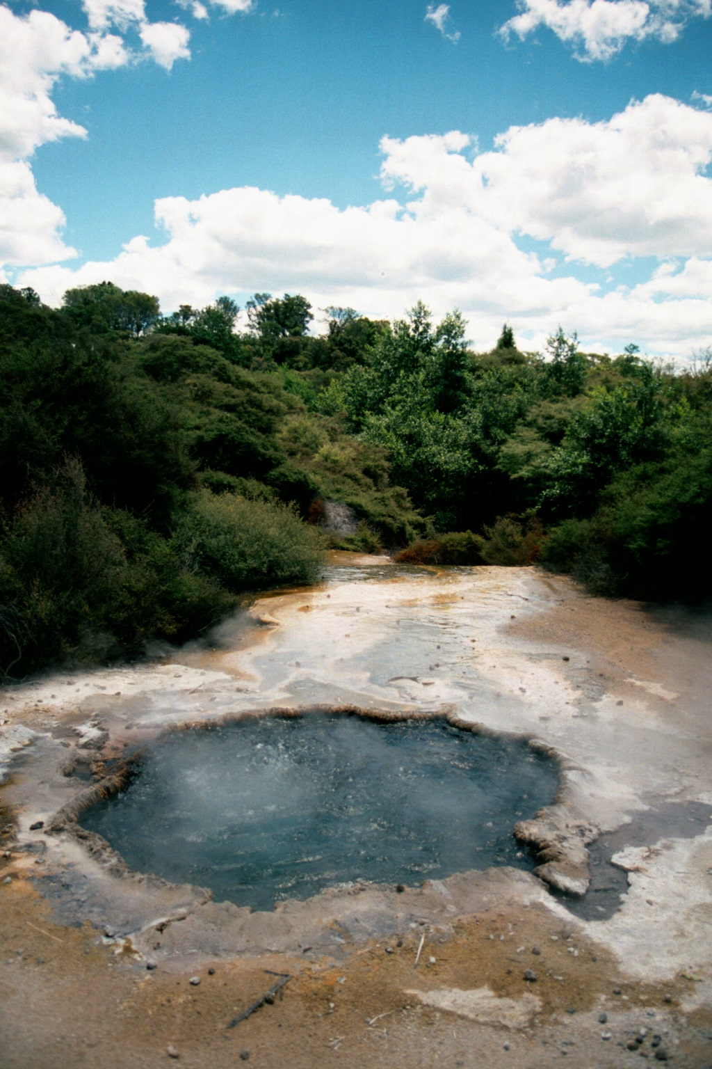 Ngararatuatara (Cooking Pool) at the Whakarewarewa geothermal area. The clear, boiling water pool is used by locals for cooking.